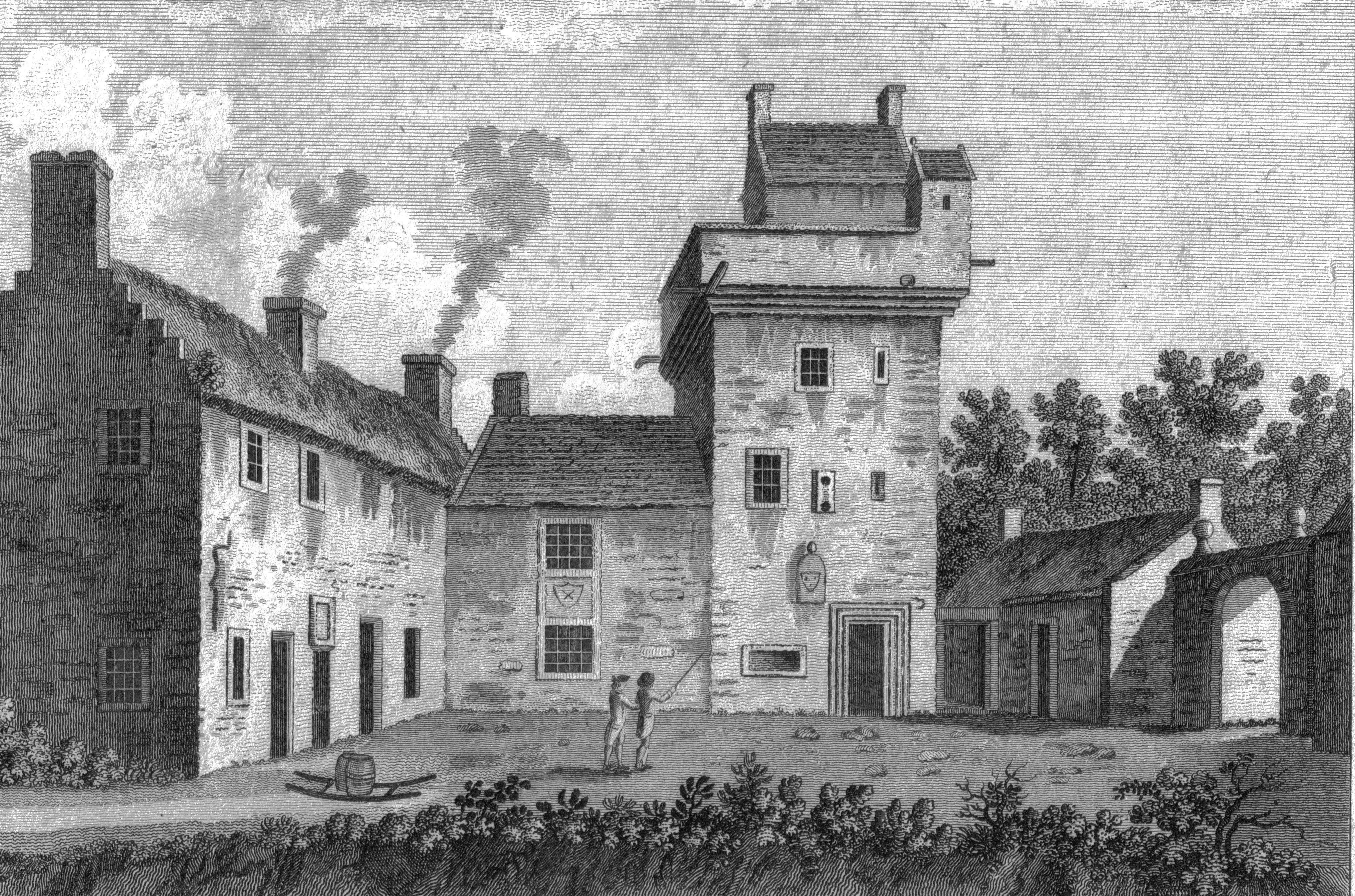 Friar's Carse, Auldgirth, Scotland. Prior to demolition.